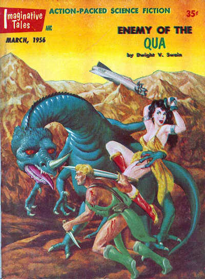 Cover of Imaginative Tales, March 1956